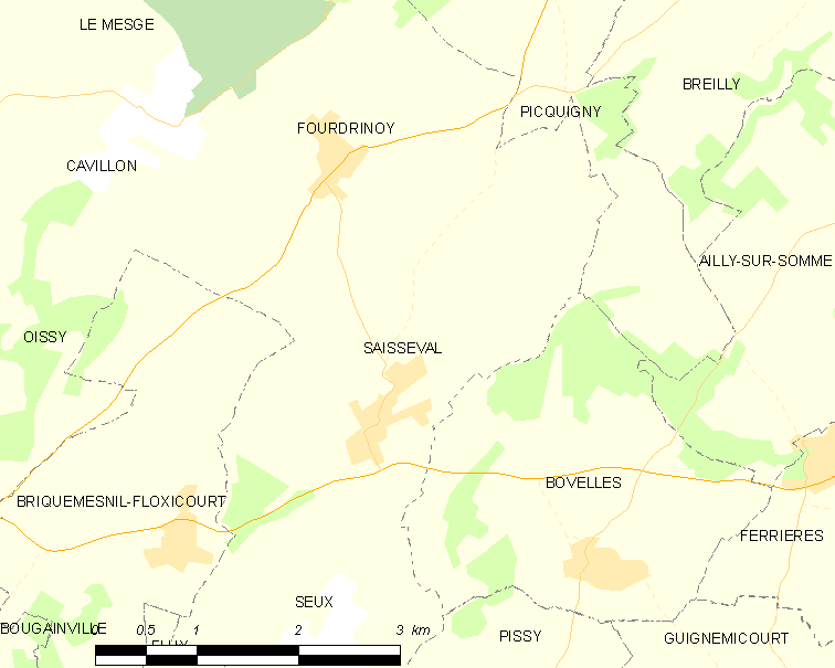 Map of French municipality Saisseval